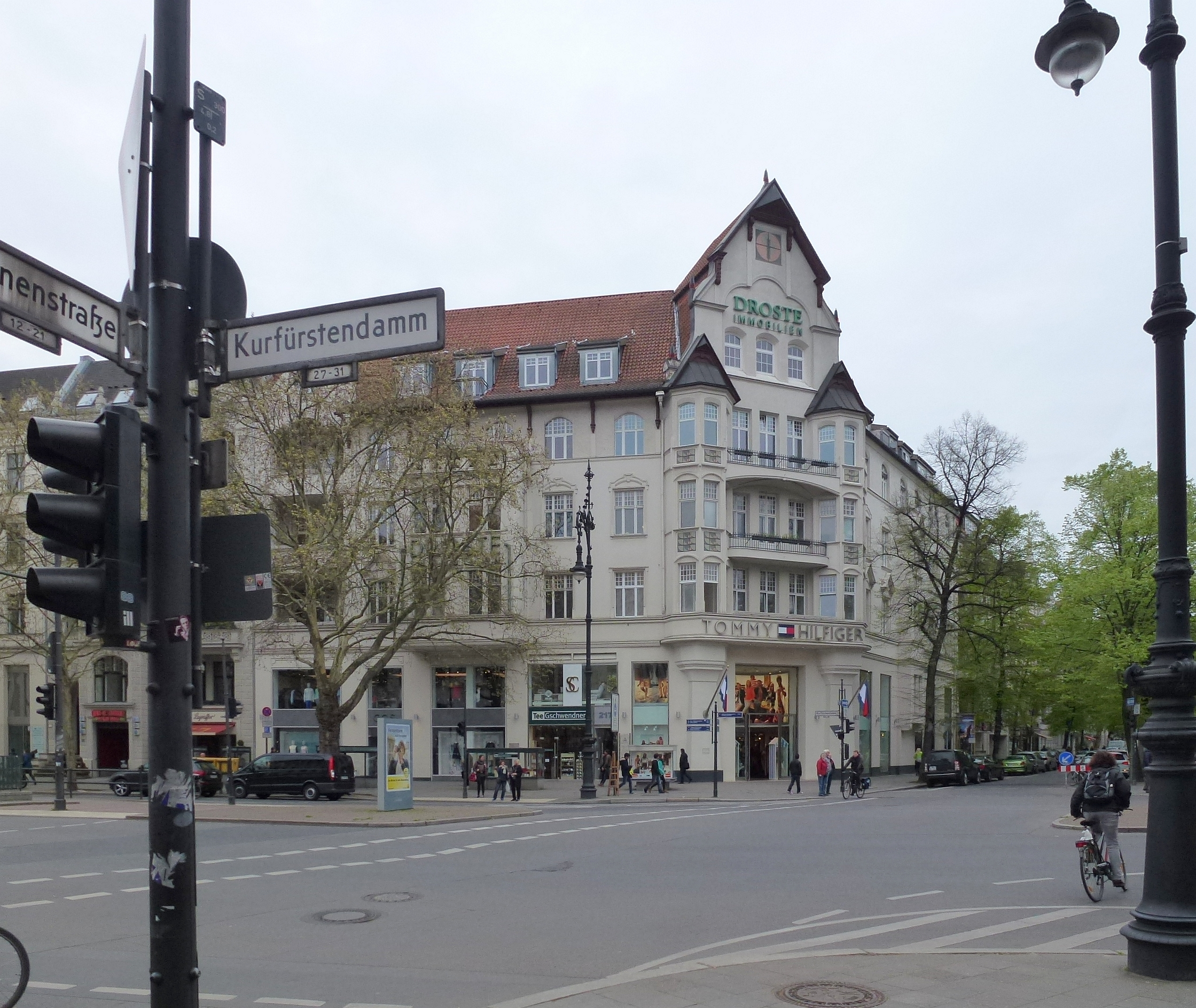 Fasanenstraße in Berlin-Charlottenburg. Begin of section from Kurfürstendamm to Lietzenburger Straße.